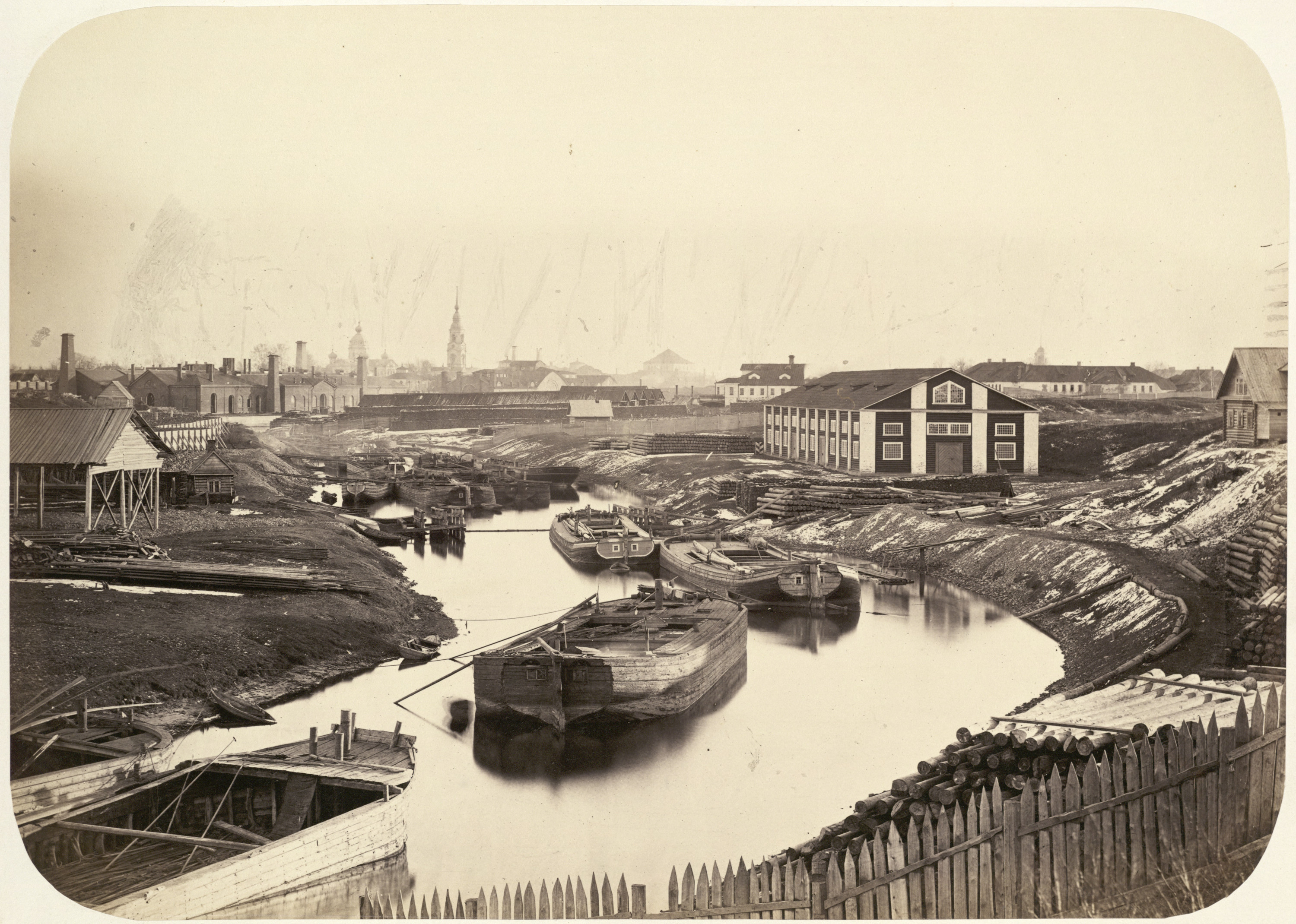 Canal with boats near St. Petersburg